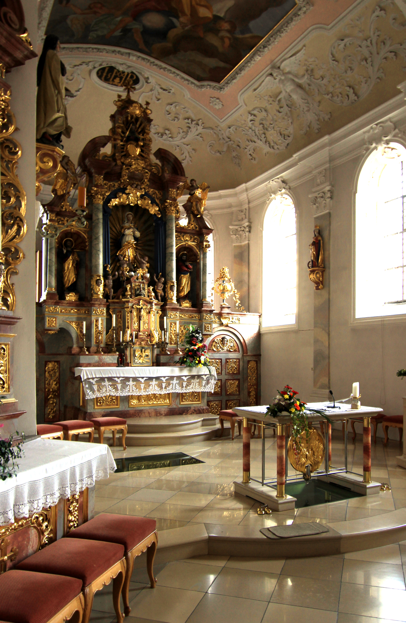 This is a photograph of an architectural monument.